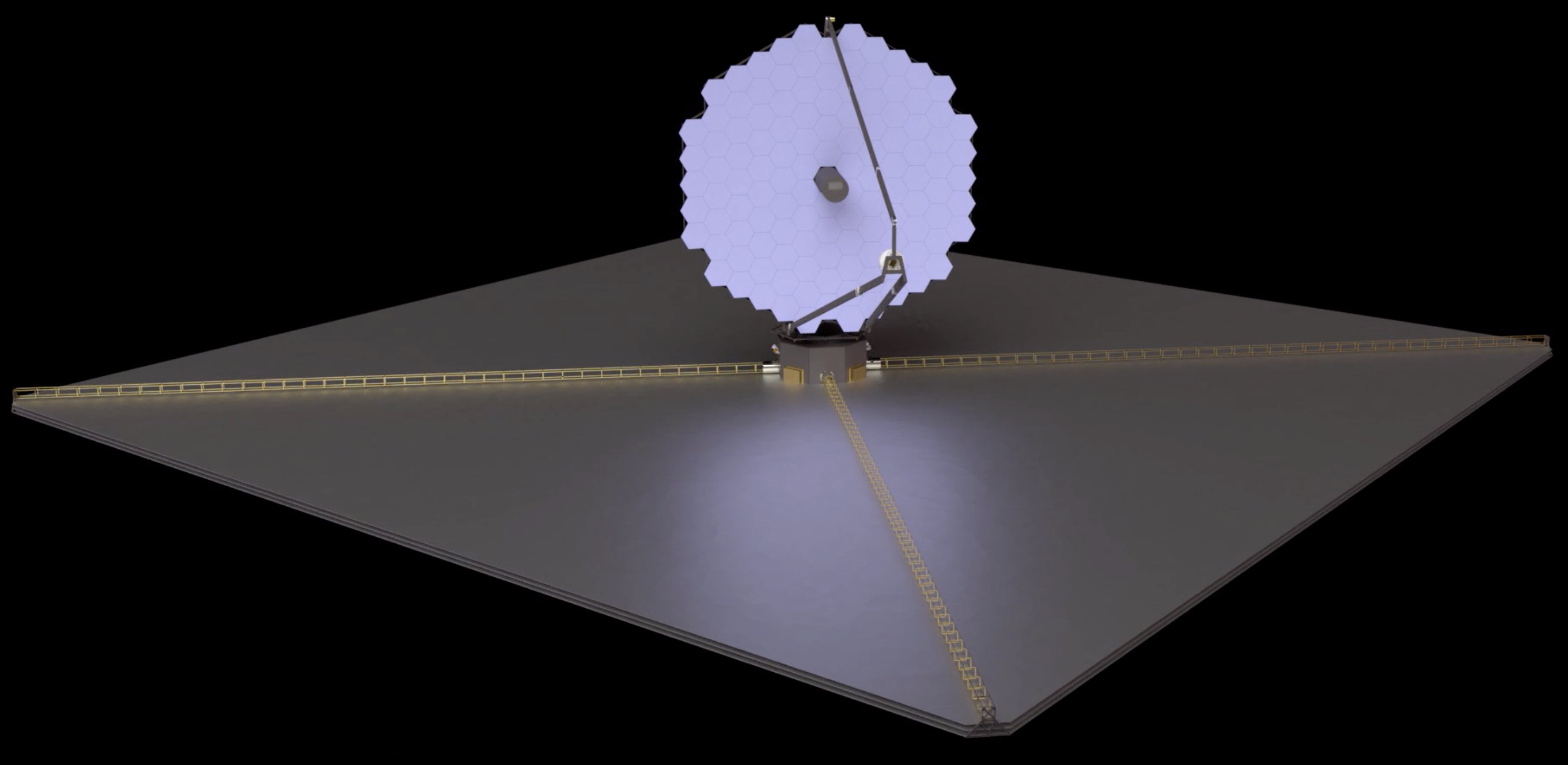 Image shows rendering of engineering design of the LUVOIR-A space telescope concept.